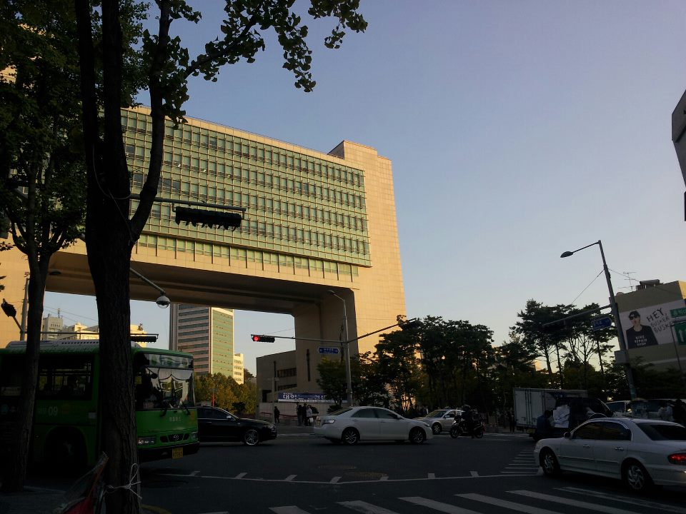 Hongmungwan gateway from west - Hongik Univ